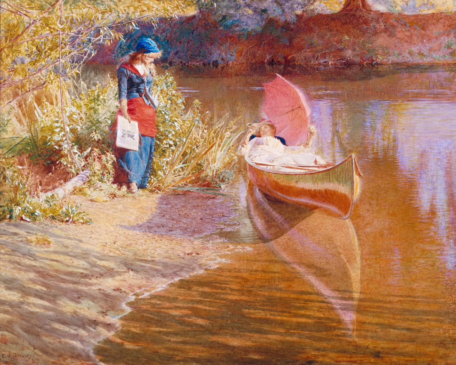 Marooning (1887). Watercolour on paper, by Edward John Gregory (1850–1909). A watercolour of his oil painting Marooned, exhibited Royal Academy 1887, no 839. Now held by the Tate (N01704)